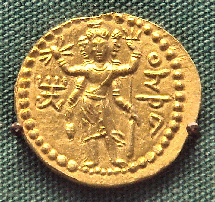 Gold coin of Hushika with Oisho